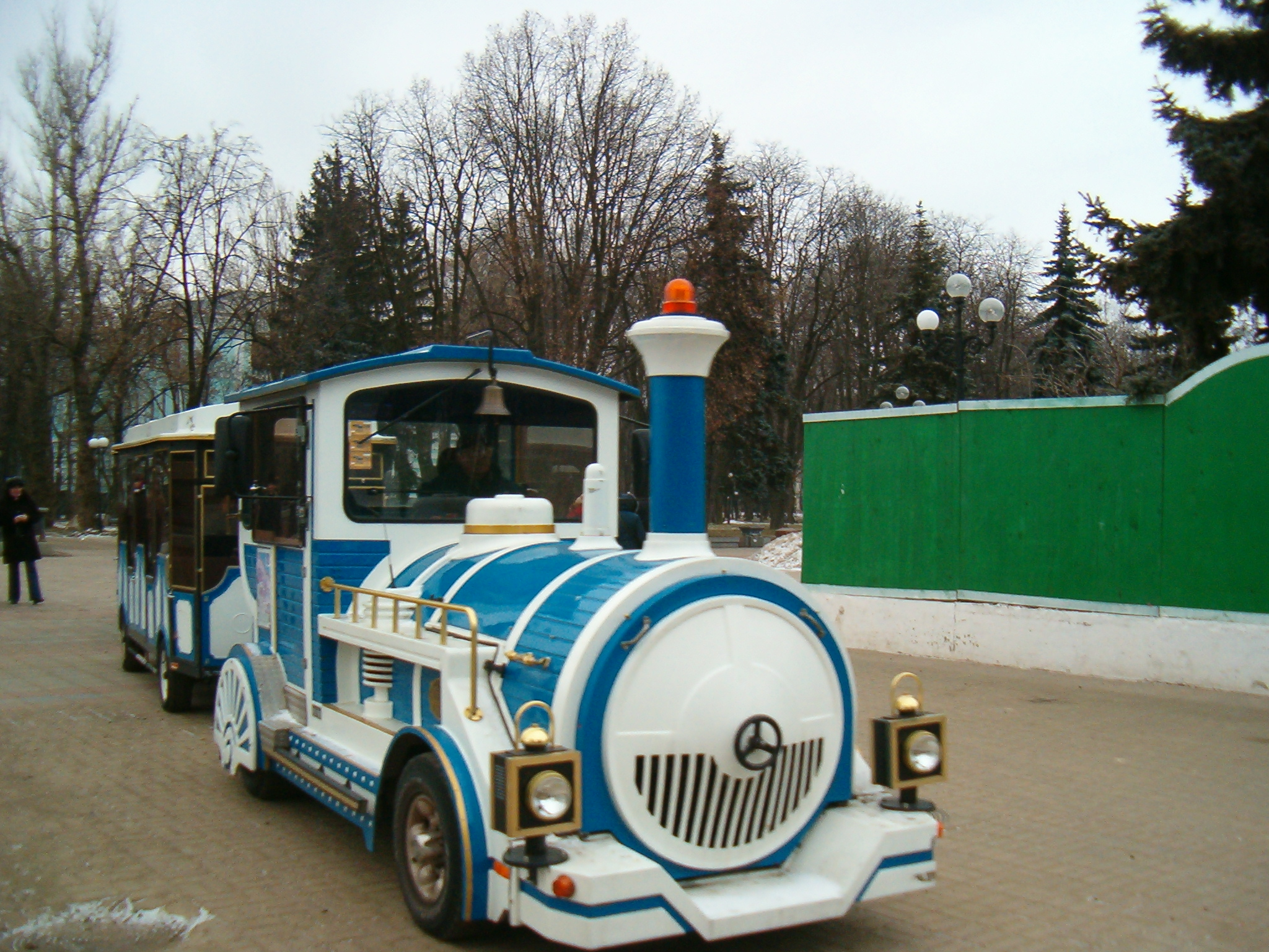 Train in Kyiv near Mariinskyi Palace